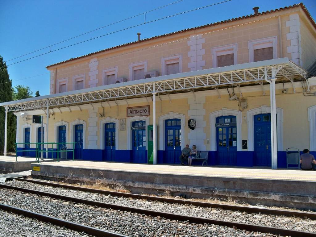 Train station in Almagro, Ciudad Real, Spain.